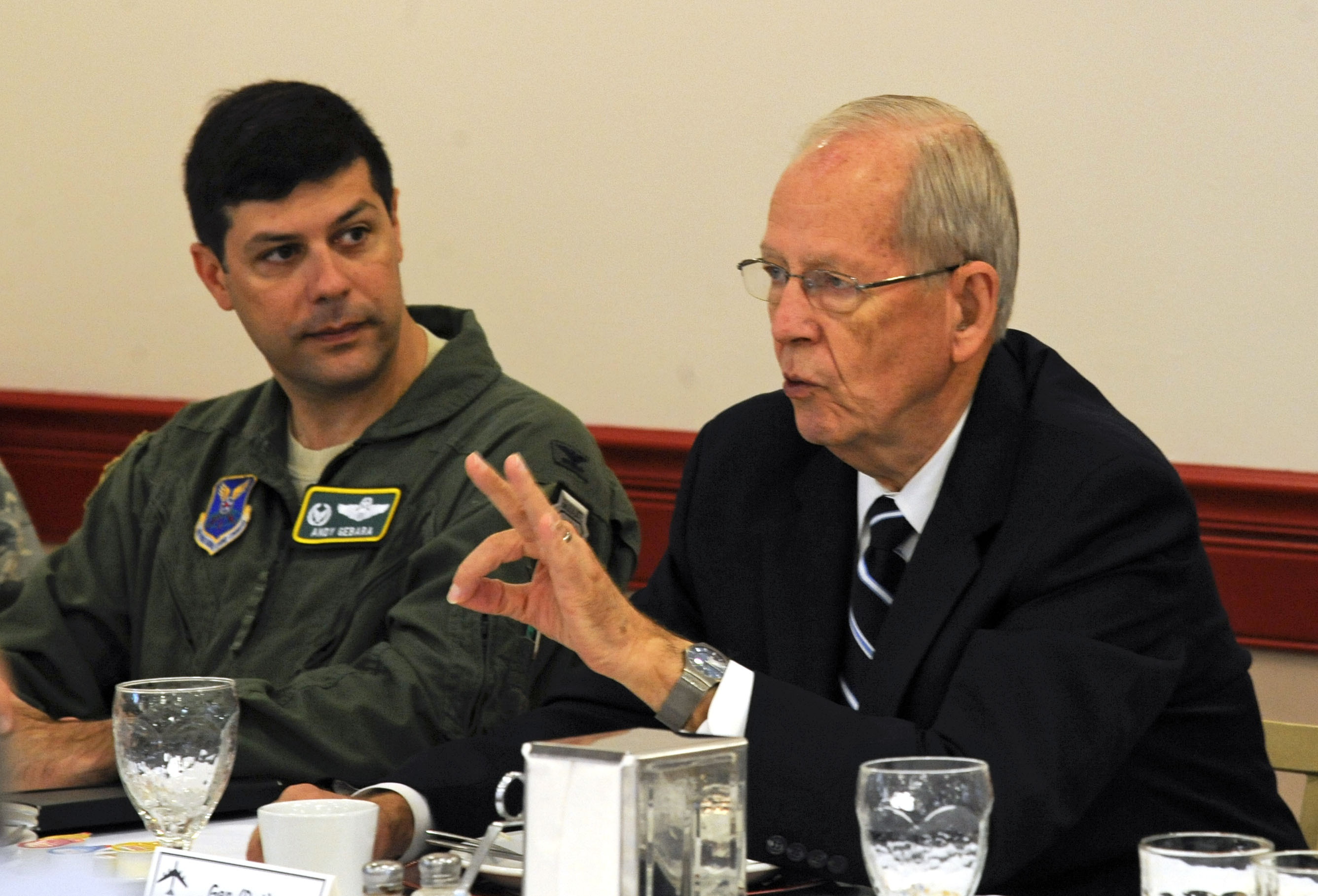 8/28/2012 - Retired Air Force General Larry Welch, 12th Chief of Staff of the Air Force, speaks at the Defense Science Board breakfast as Col. Andrew Gebara, 2nd Bomb Wing Commander, listens at Barksdale Air Force Base, La., Aug 28. Welch attended the breakfast to meet with Airmen and discuss work-related issues and possible solutions.